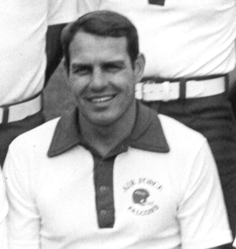 Ken Hatfield, head football coach at the United States Air Force Academy from 1979 to 1983, in an undated photo